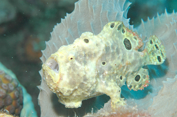 Initially identified as an Oscellated Frogfish, Bonaire, Dutch Antilles. Image taken by Clark Anderson/Aquaimages. Subsequently reidentified by Ross Robertson as Antennarius multiocellatus.